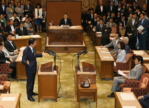 Yorihisa Matsuno, President of Japan Innovation Party, debated with Shinzō Abe, Prime Minister, at the Committee on Fundamental National Policies Joint Meeting of Both Houses at the National Diet Building in Chiyoda Ward, Tōkyō Metropolis on June 17, 2015.